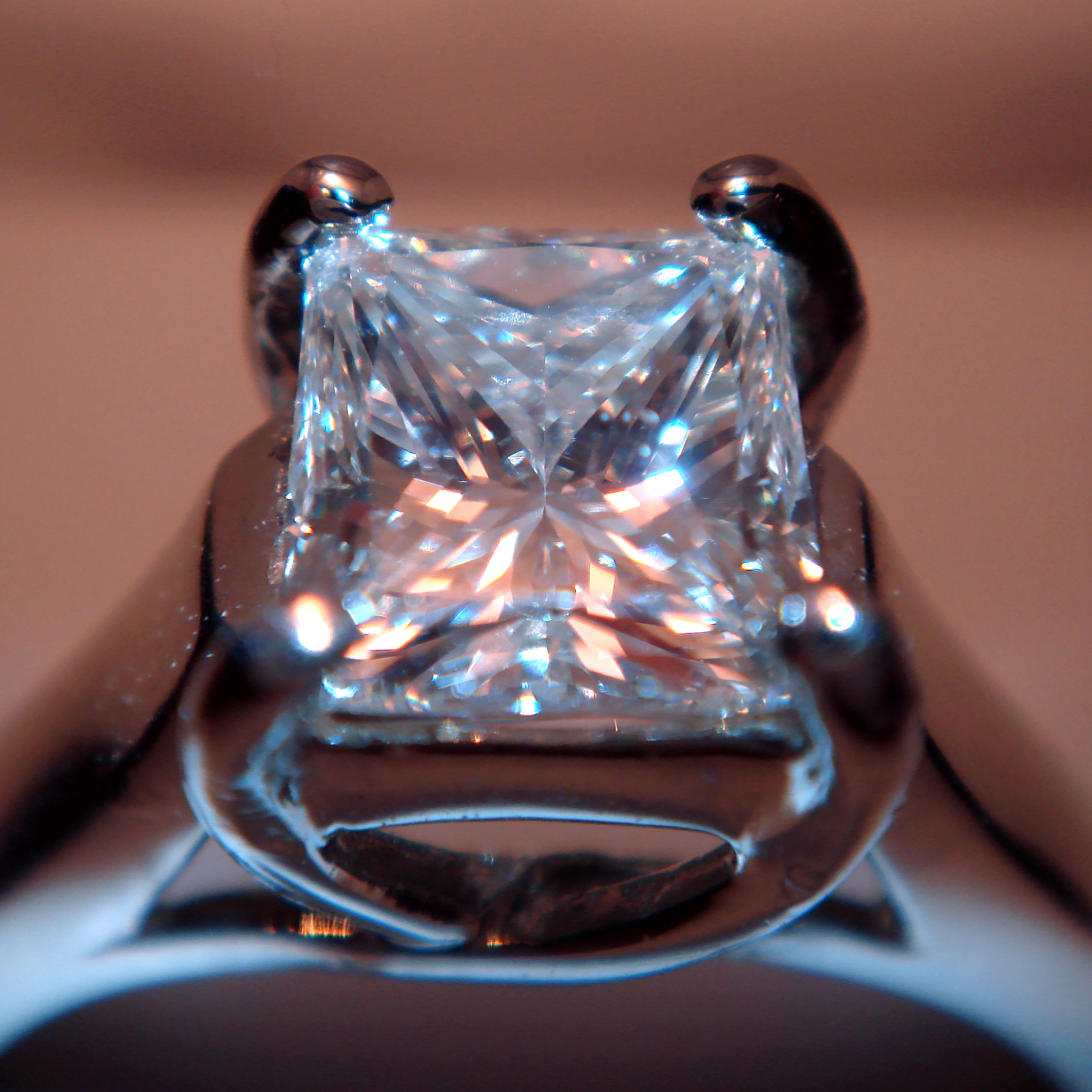 Diamond, princess cut (cropped/sharpened)